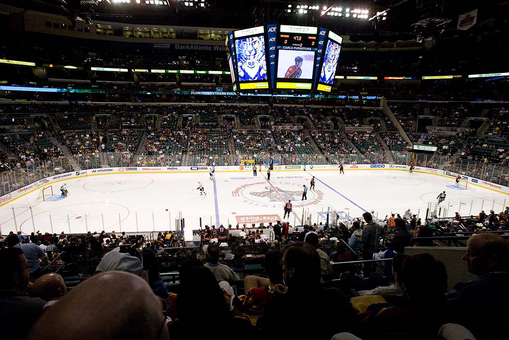 Pittsburgh Penguins vs. Florida Panthers